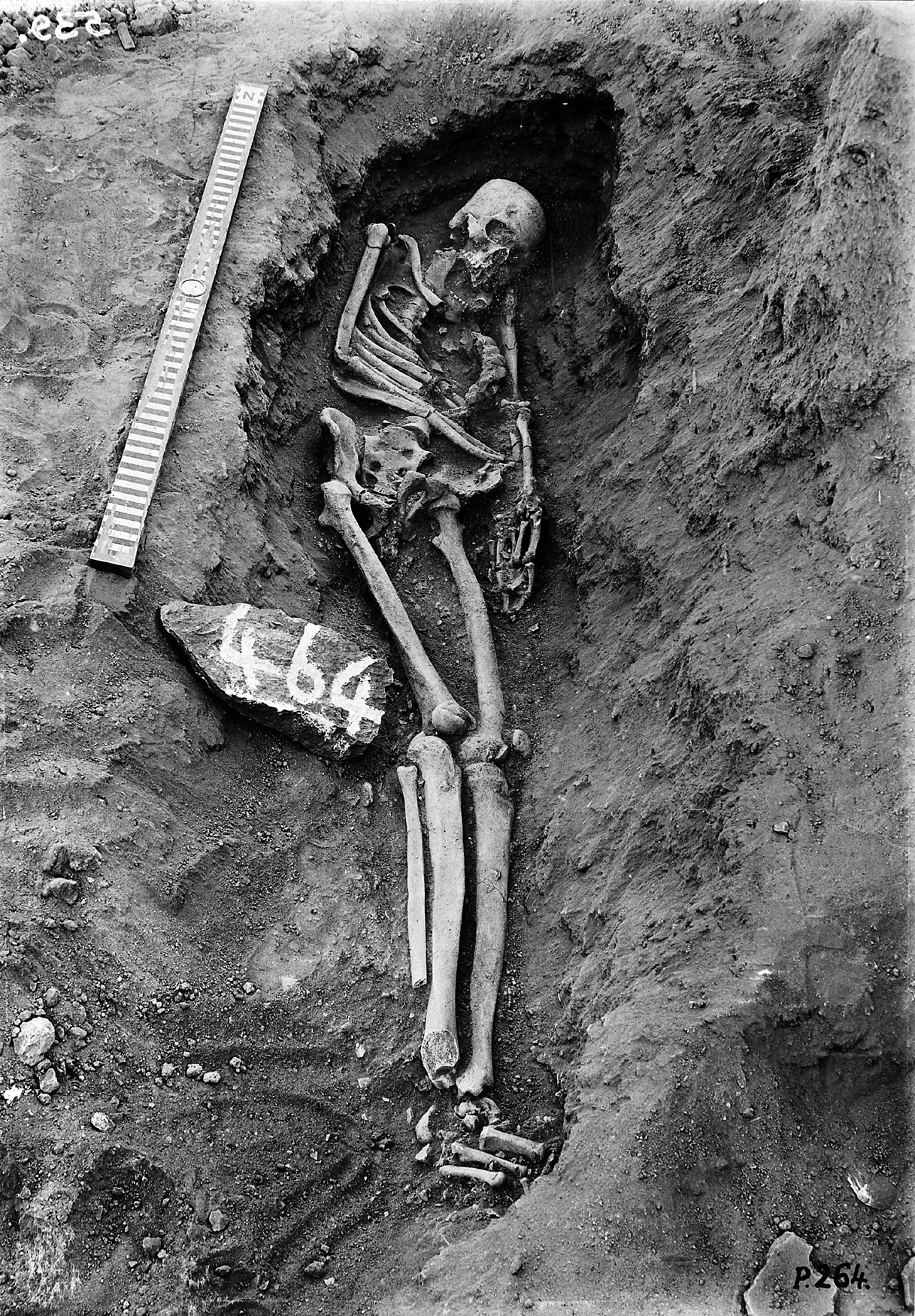 Skeleton in situ, found at Jebel Moya Wellcome Images Keywords: Anthropology; archaelogy; gebel moya